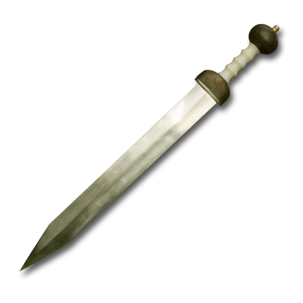 Roman gladius, type Pompeji Photographed by myself during a show of Legio XV from Pram, Austria